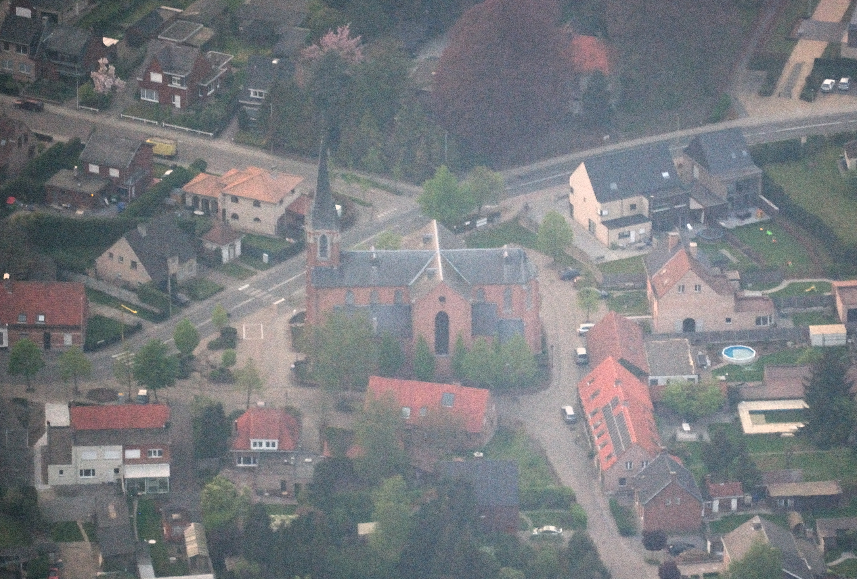 Aerial view of the village centre of Emblem, commune of Ranst, Belgium, with Saint Gummarus' church from the South side. Nikon D60 f=160mm f/5.3 at 1/250s ISO 800. Processed using Nikon ViewNX 1.5.2 and GIMP 2.6.6.